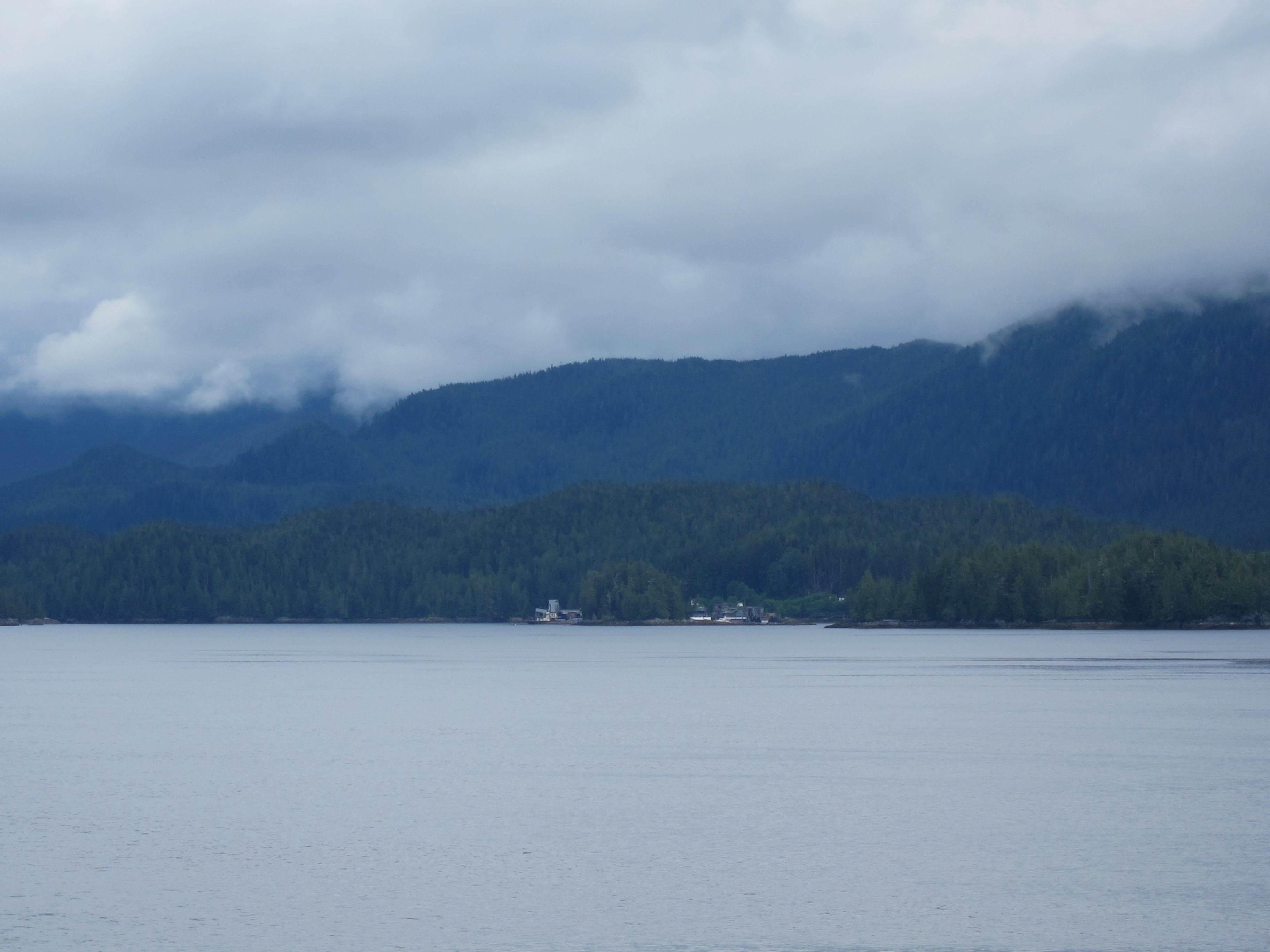 The small fishing and canning community of Namu, central coast of British Columbia, Canada